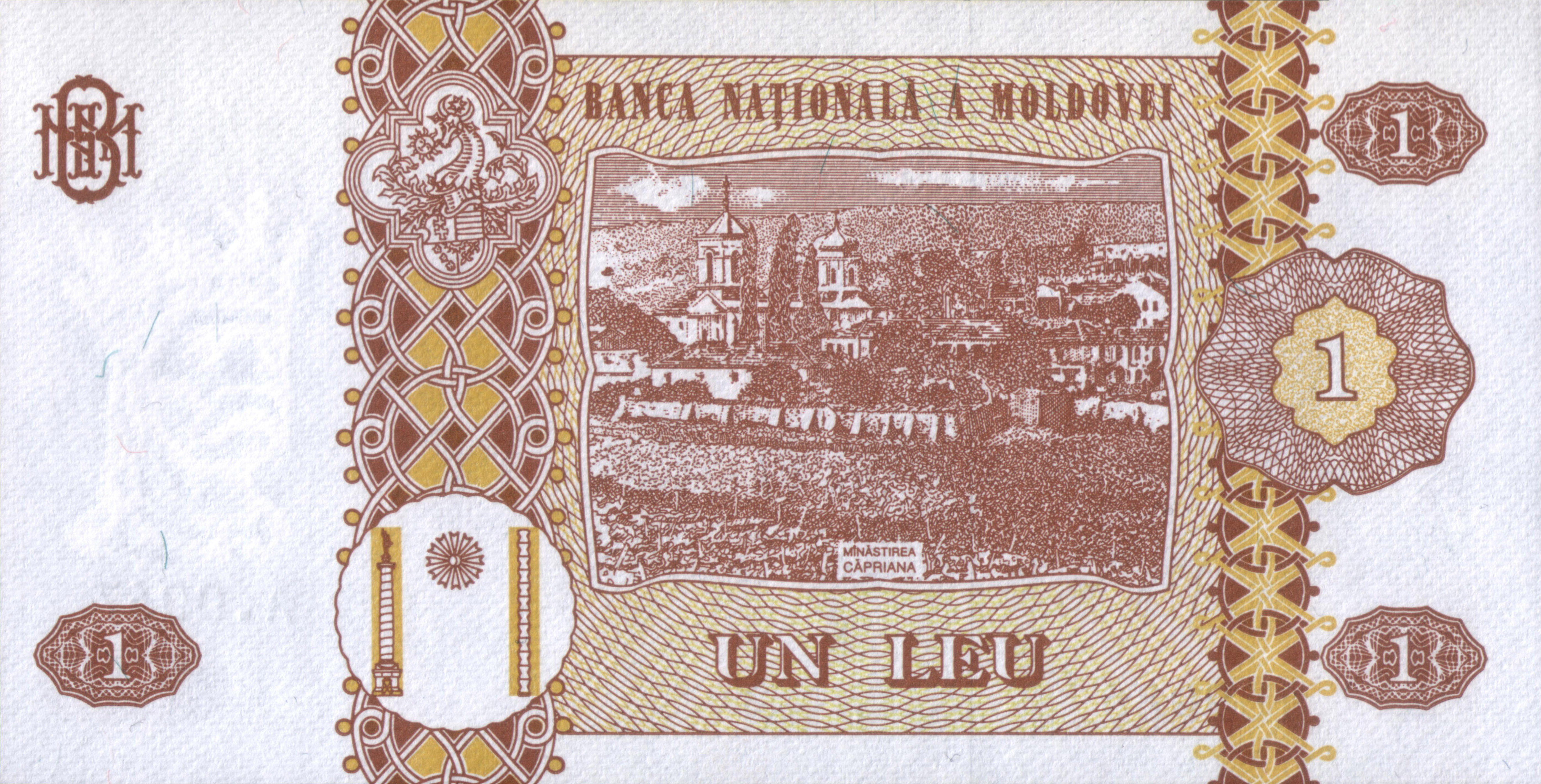 1 lei (1994)